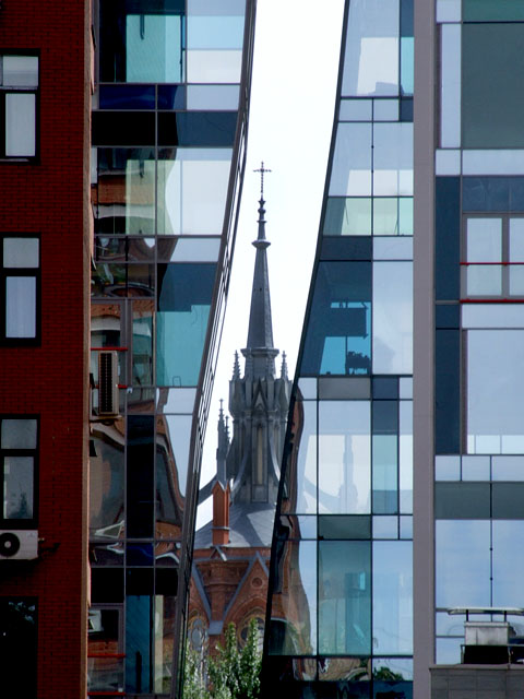 Moscow Catholic church.JPG